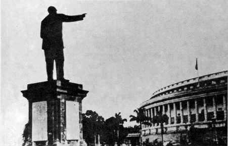 Dr. Babasaheb Ambedkar